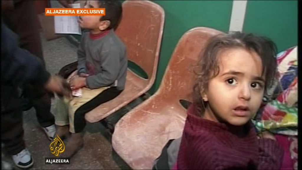 Sufferings of the Palestinian children during the Israeli attacks on Gaza (27 December 2008 - 19 January 2009).